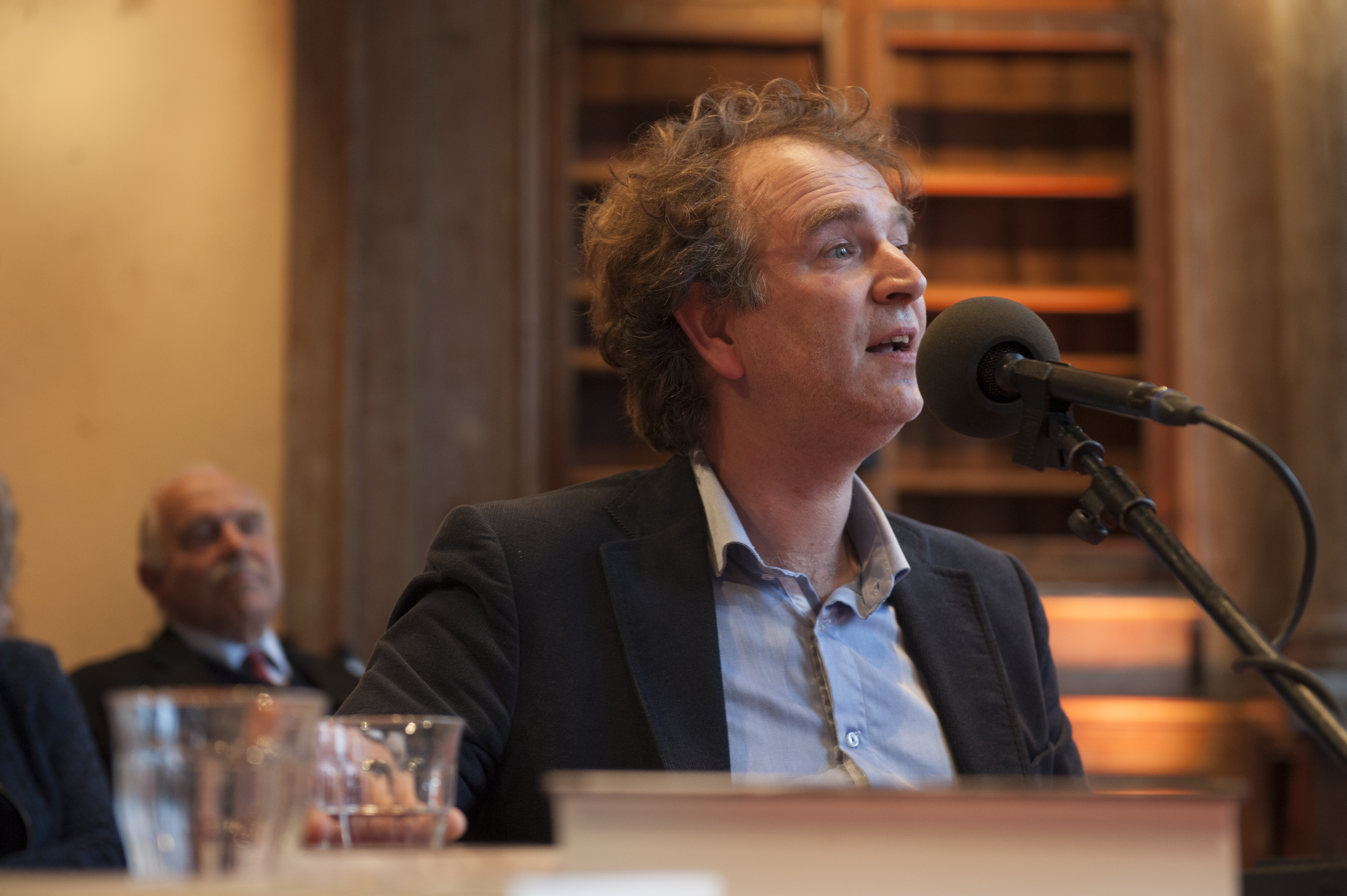 Dutch writer Machiel Bosman during the ceremony of the Libris Geschiedenis Prijs, 30 Oct. 2016